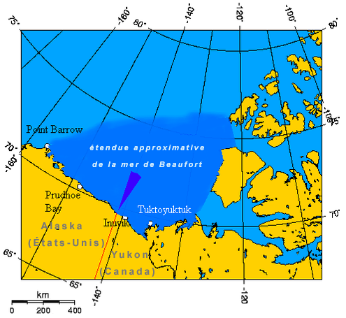 The wedge shaped area on this map is the approximate area of the waters in dispute between the Yukon and Alaska. The longitude and latitudes of the communities follow: -148.4054,70.2254, Prudhoe Bay, Alaska -156.7358,71.3003, Barrow, Alaska -139.5011,69.5539, Inuvik -135.3302,69.6212, Tuktoyuktuk